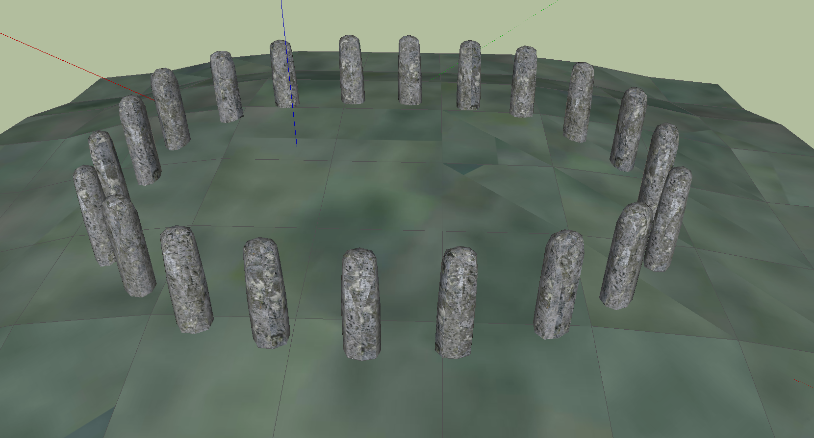 A digital reconstruction of Bluestonehenge showing the oval configuration suggested by Henry Rothwell.